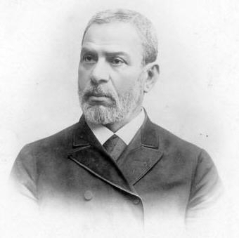 Hebrew author Avraham Shalom Friedberg